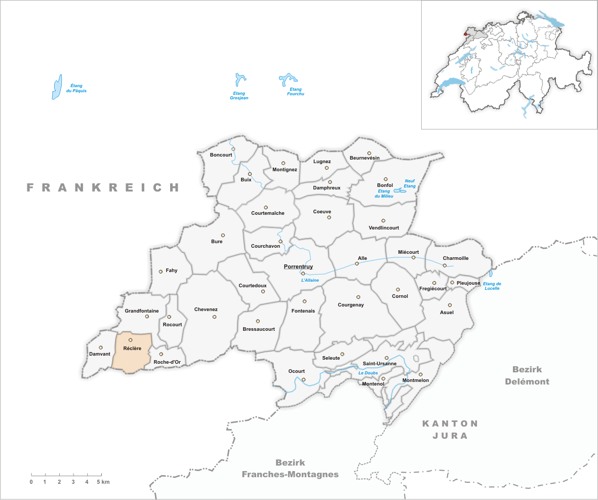 Municipality Réclère